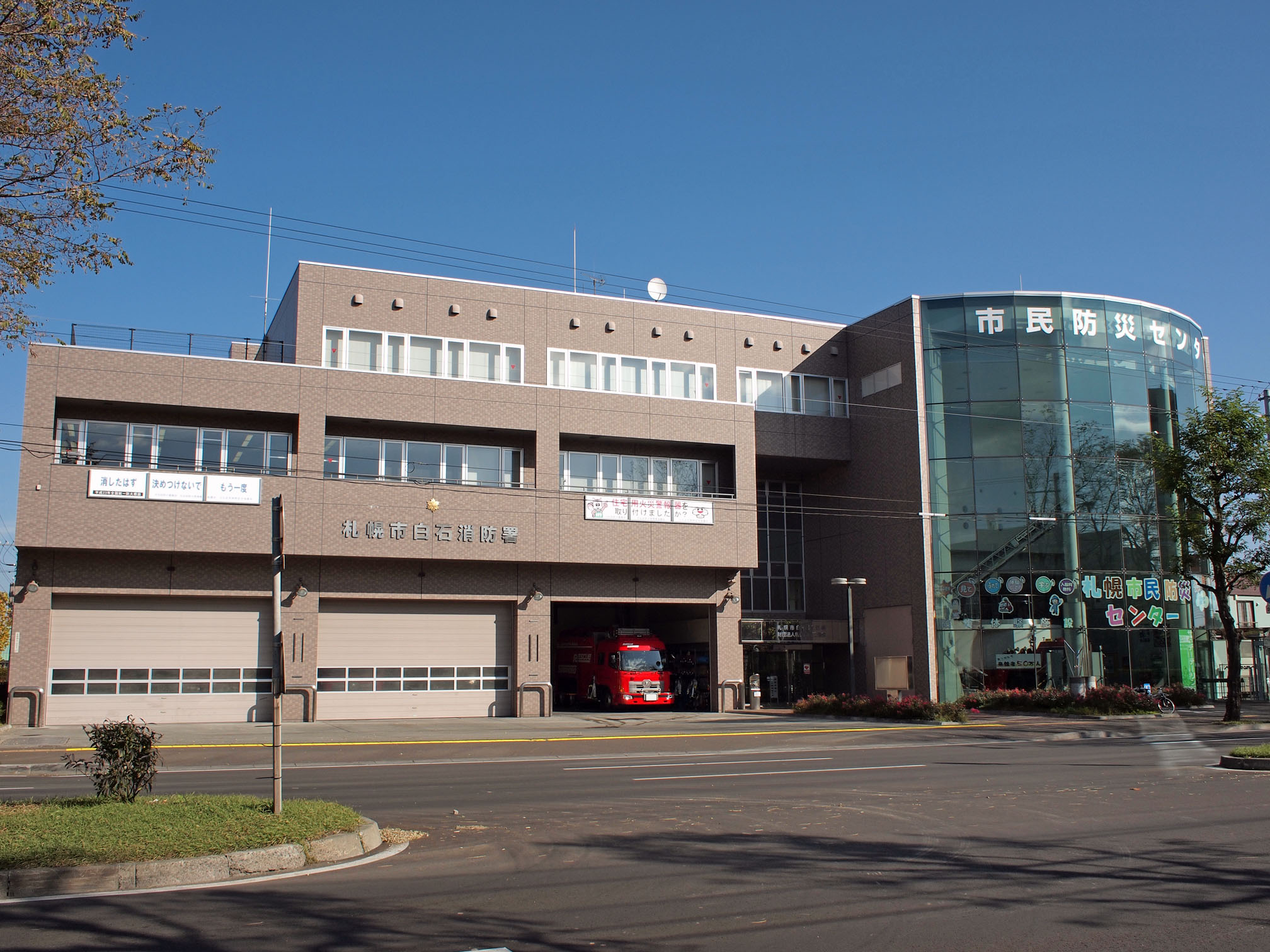 Shiroishi Fire Station, Sapporo, Hokkaido, Japan